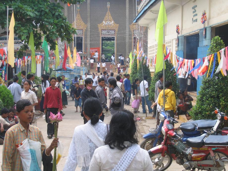 PHNOM PENH : Entry to WAT MOHA MONTREY at PCHUM BEN day